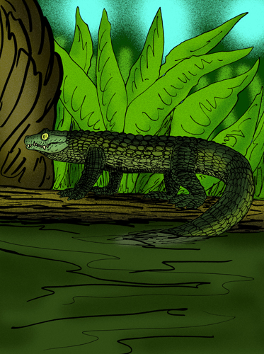 Reconstruction of the Latest Pleistocene to Holocene mekosuchine crocodile, Mekosuchus inexpectans, of prehistoric Fiji.